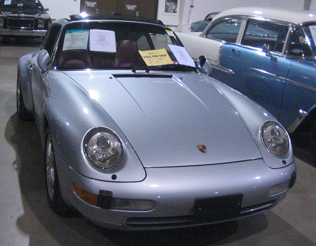 1996 Porsche 911 Targa photographed in Mississauga, Ontario, Canada at the Toronto Classic Car Auction of spring 2012.